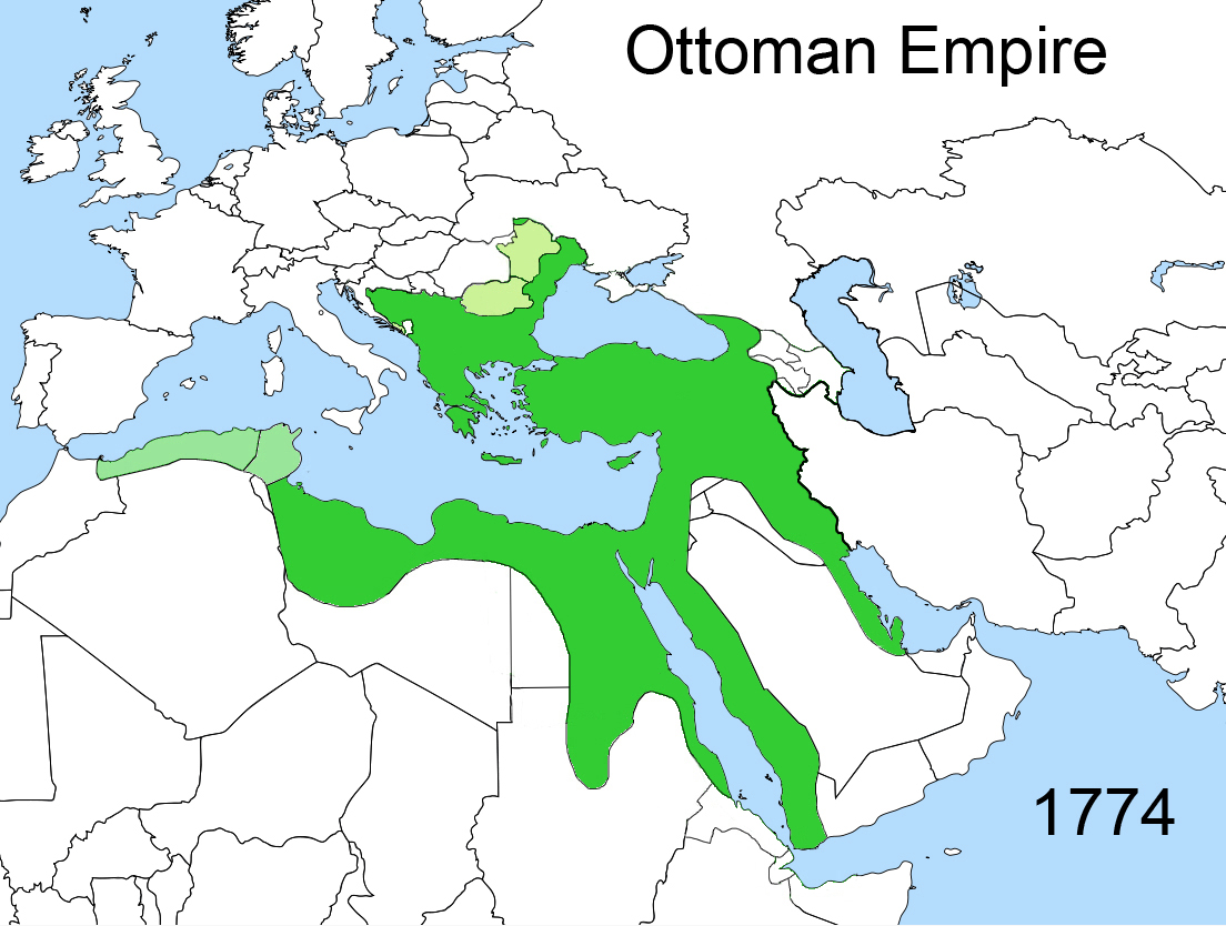 Territorial changes of the Ottoman Empire